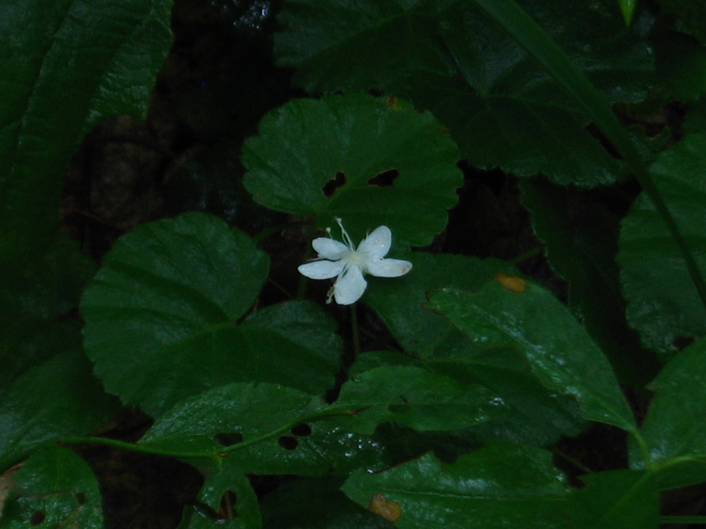 Photo of Dalibarda repens (dewdrop) taken in a wooded area in New Hampshire on a rainy day.